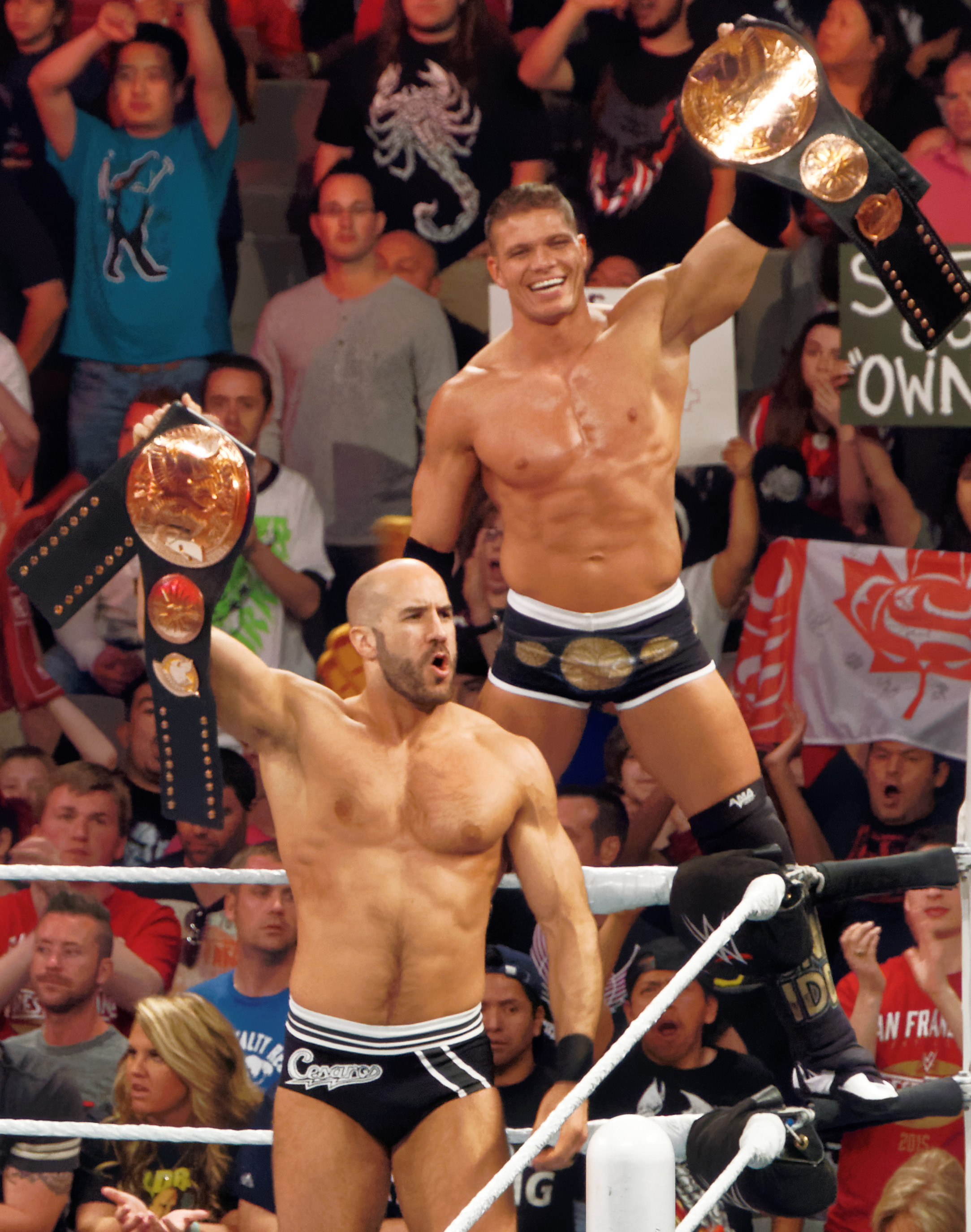 Cesaro and Tyson Kidd as the WWE Tag Team Champions at the WWE Raw television taping on March 30, 2015.